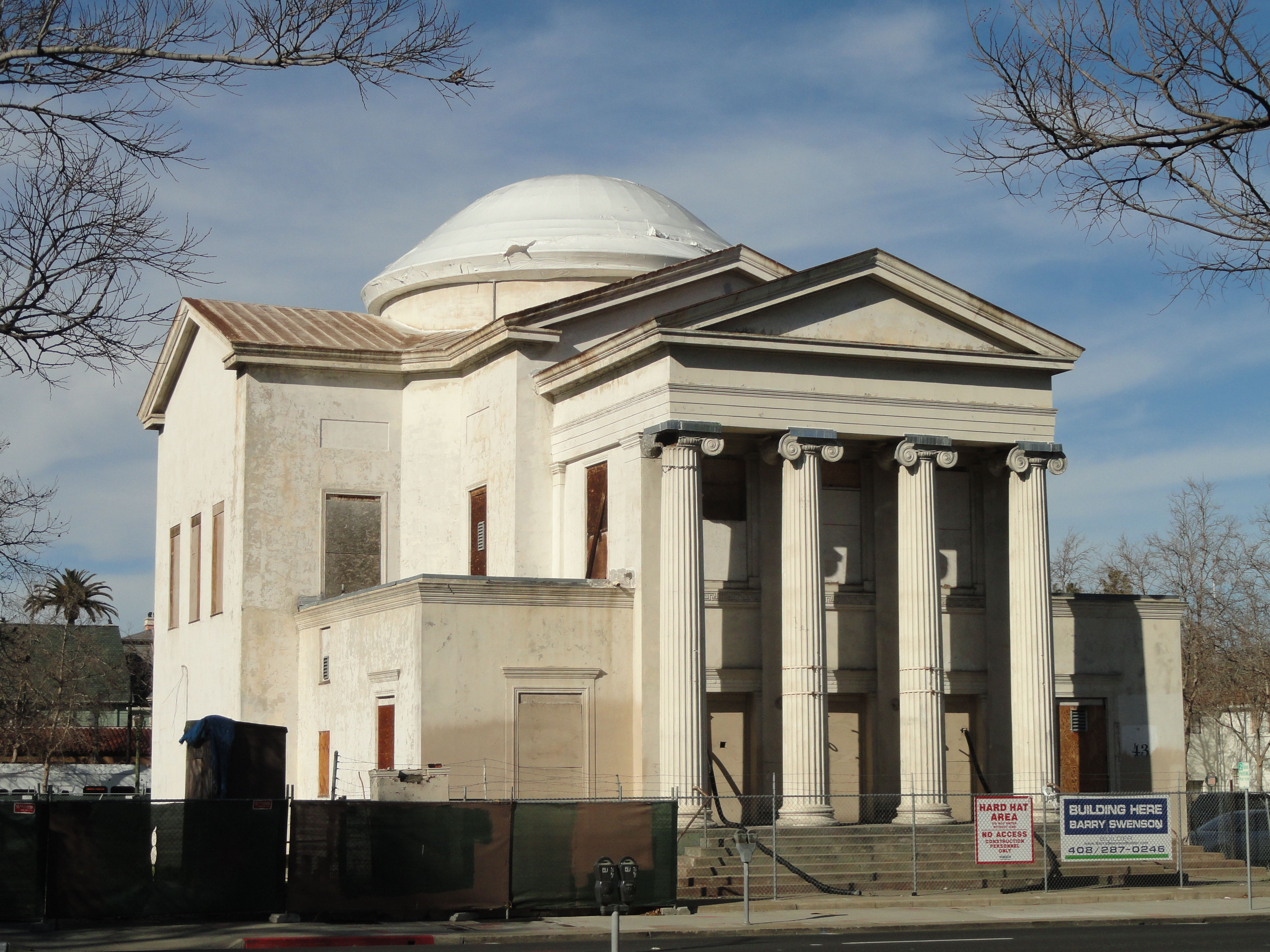 The former First Church of Christ Scientist, St. James Park, San Jose, California, USA.